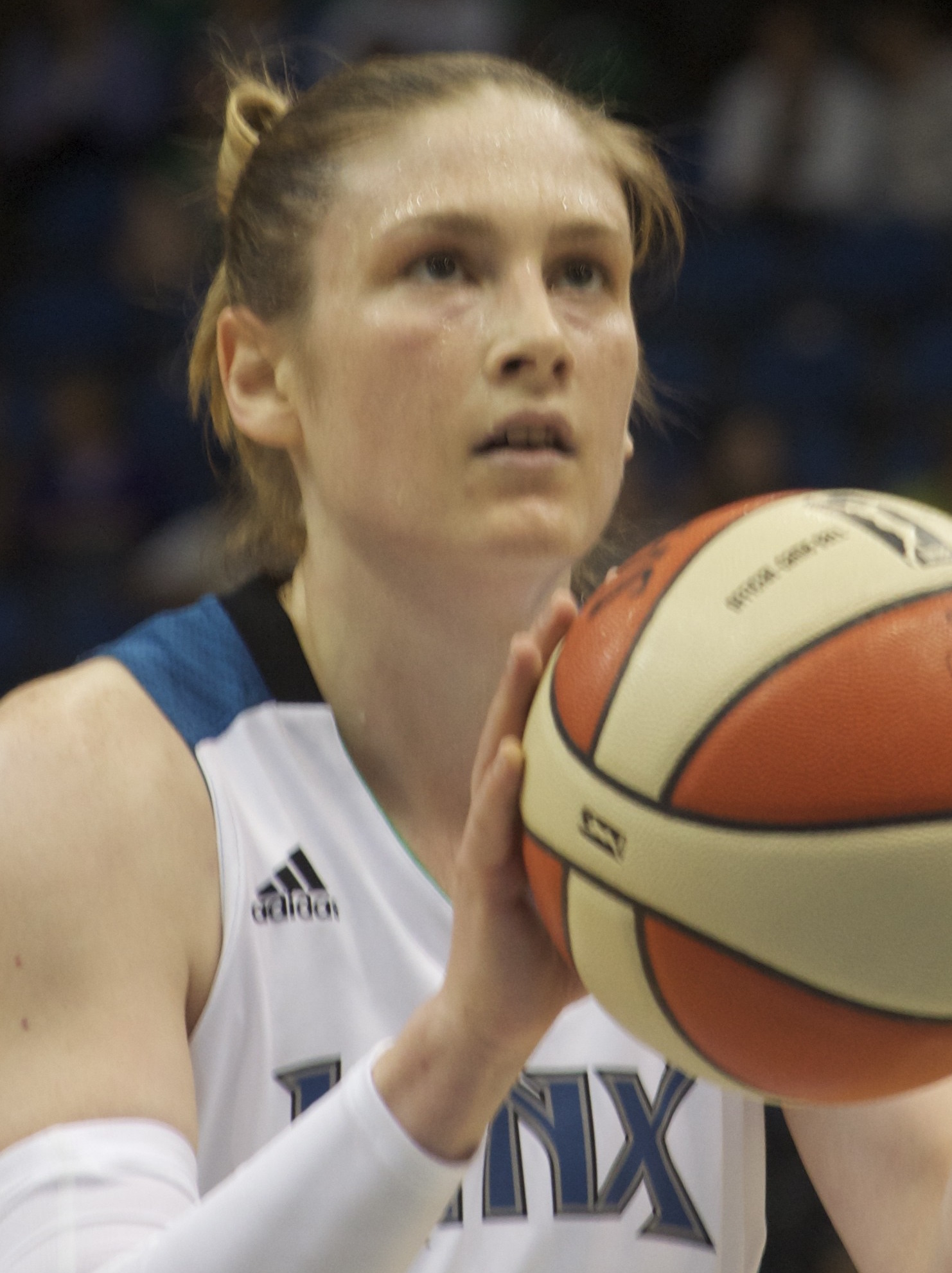 Lindsay Whalen of the Minnesota Lynx